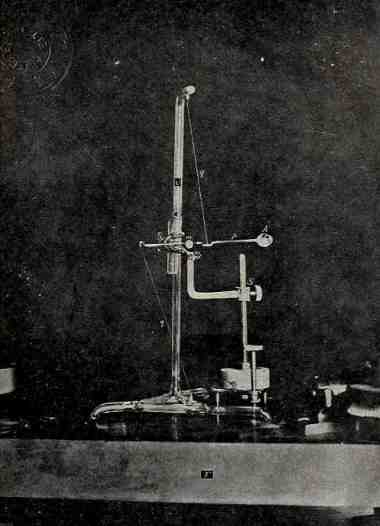 The silica inclinometer which Mishio Ishimoto who was a Japanese seismologist made